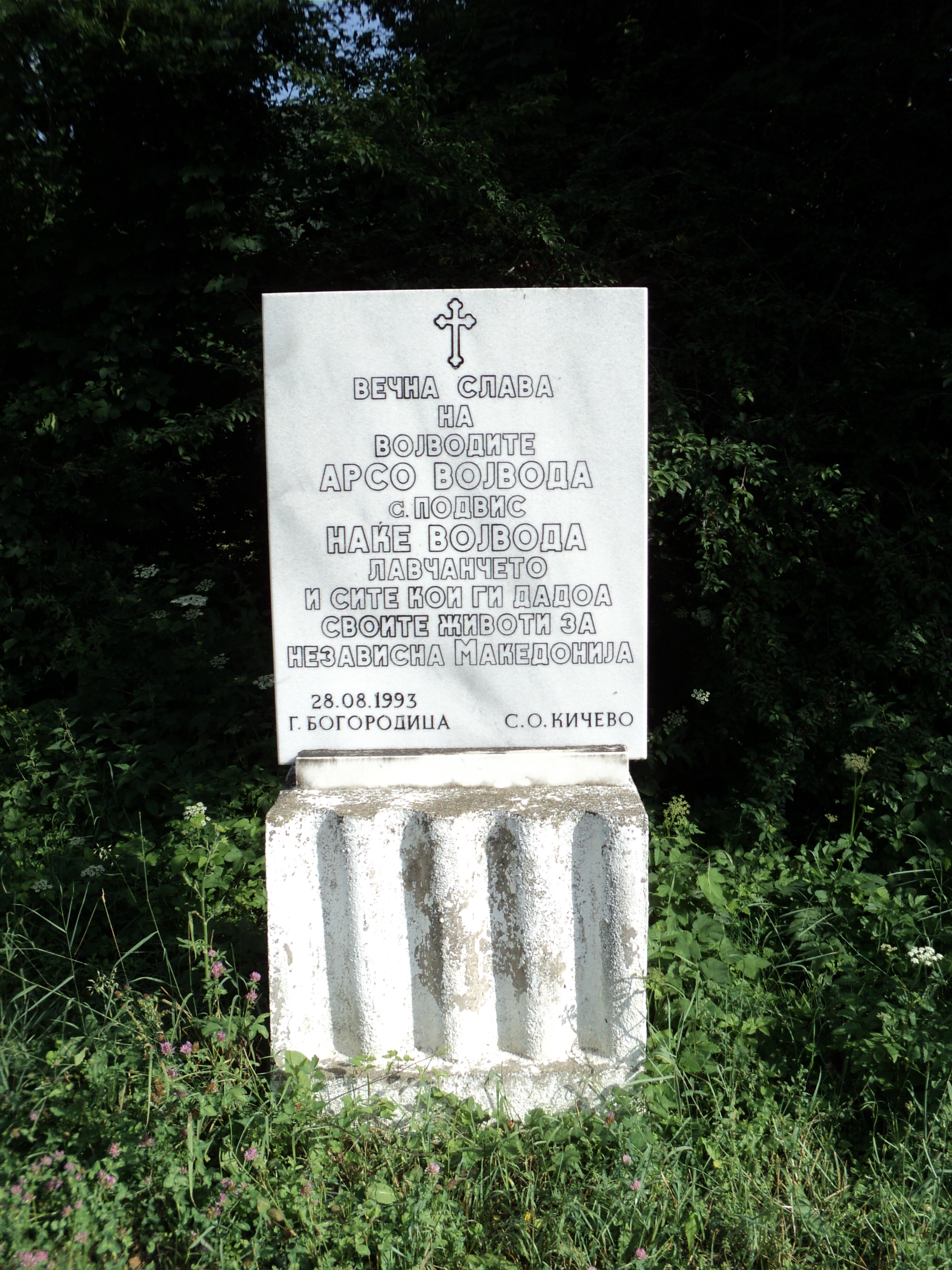 Monument to the local leaders of the Ilinden uprising of 1903 in Podvis.